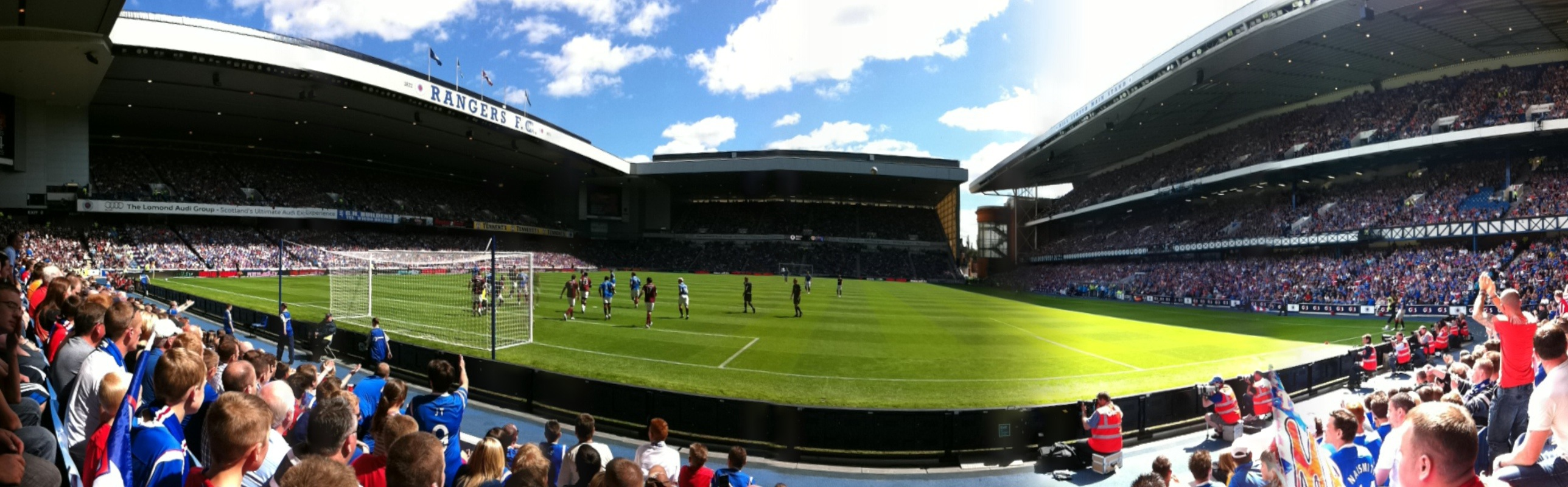 First home match of the 2011 season for Glasgow Rangers at their home ground, Ibrox Stadium, Glasgow, against Hearts. I attended in part to commemorate the memory of my late father Joseph Chapman.